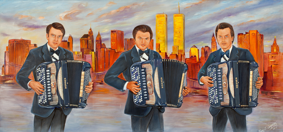 A painting by Timo Ingman from the Laiho Trio in New York. Oil 57 x 120 cm. Photo by Arto Helin Studio. (The city in the background is in the sunrise colors.)